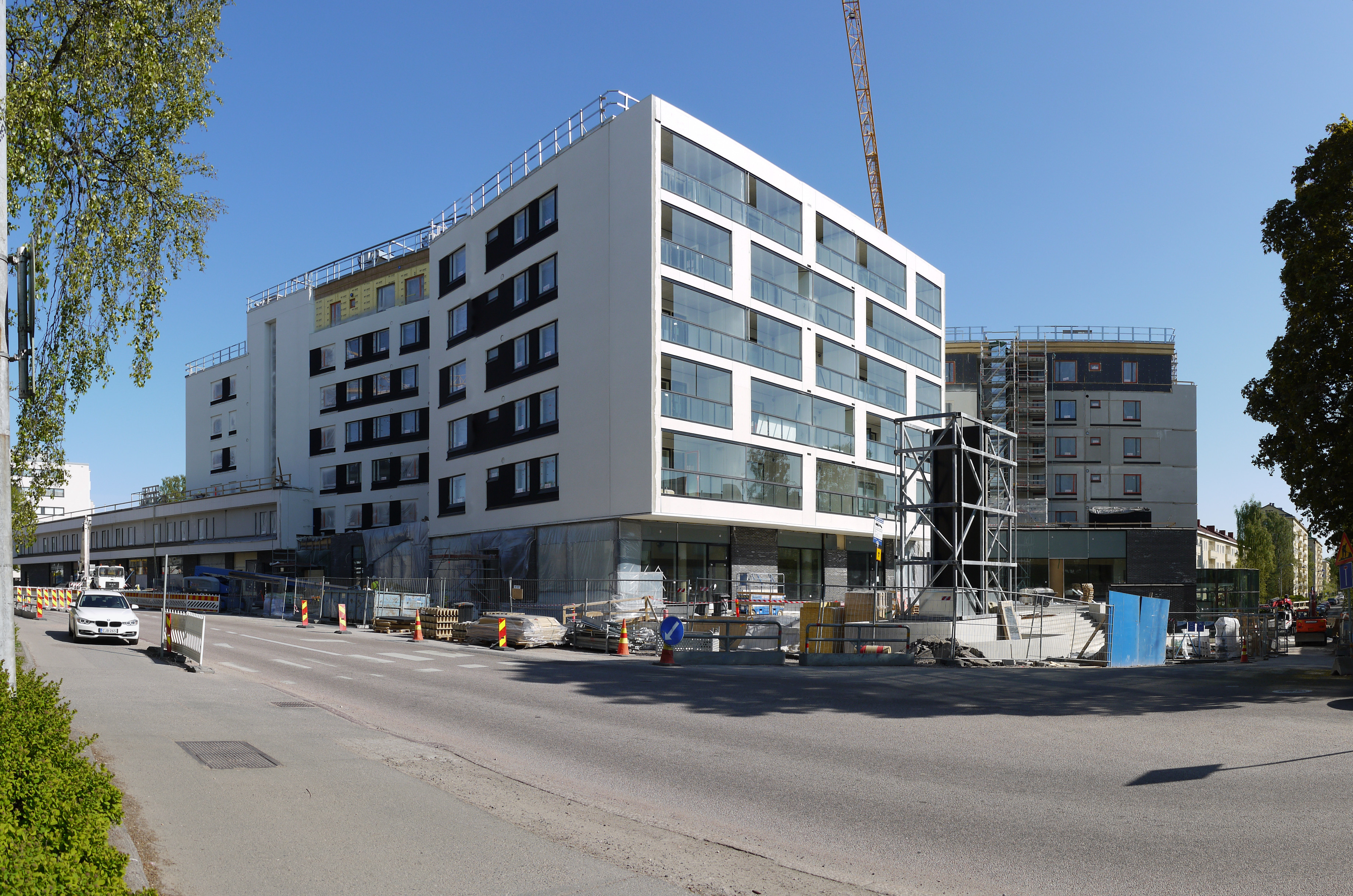 Lauttis Shopping Centre in Helsinki, Finland, May 2016. The new shopping centre was built on the lot of the earlier, now demolished, shopping centre. Lauttasaari station's main entrance is built next to shopping centre, in the corner of Otavantie and Kauppaneuvoksentie.